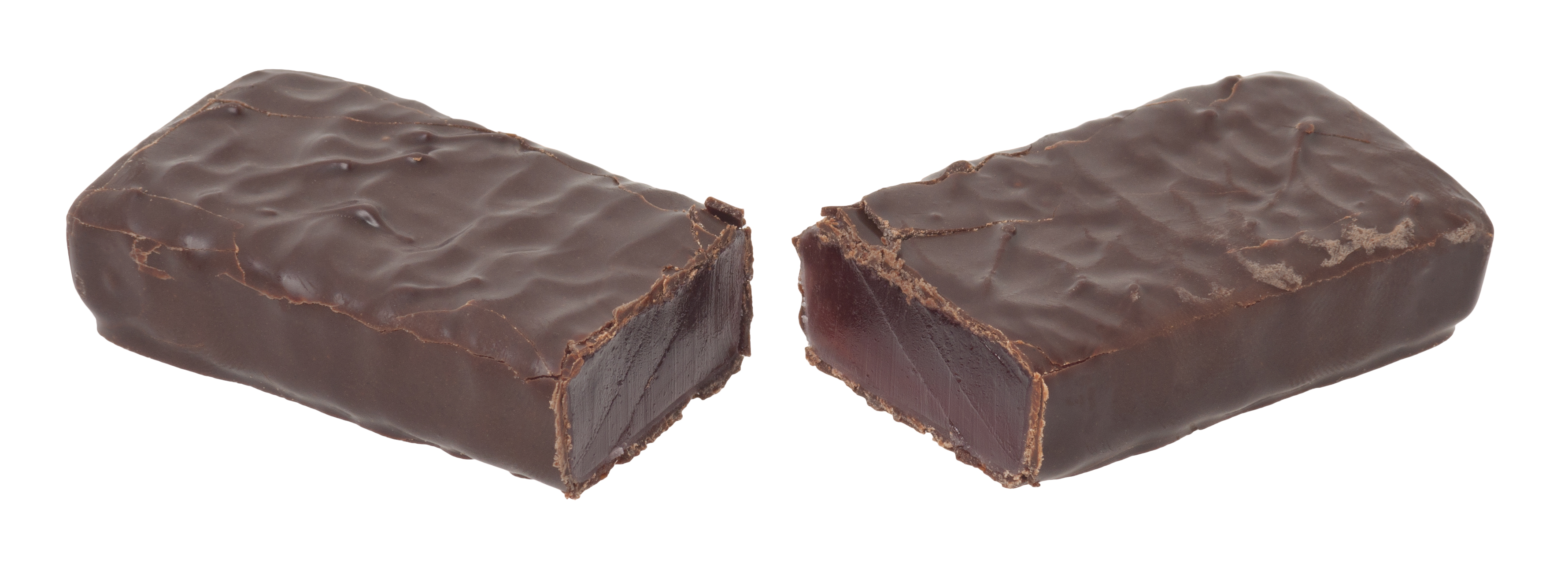 A Joyva Joy candy split in half. Chocolate covered raspberry-flavored firm jelly.